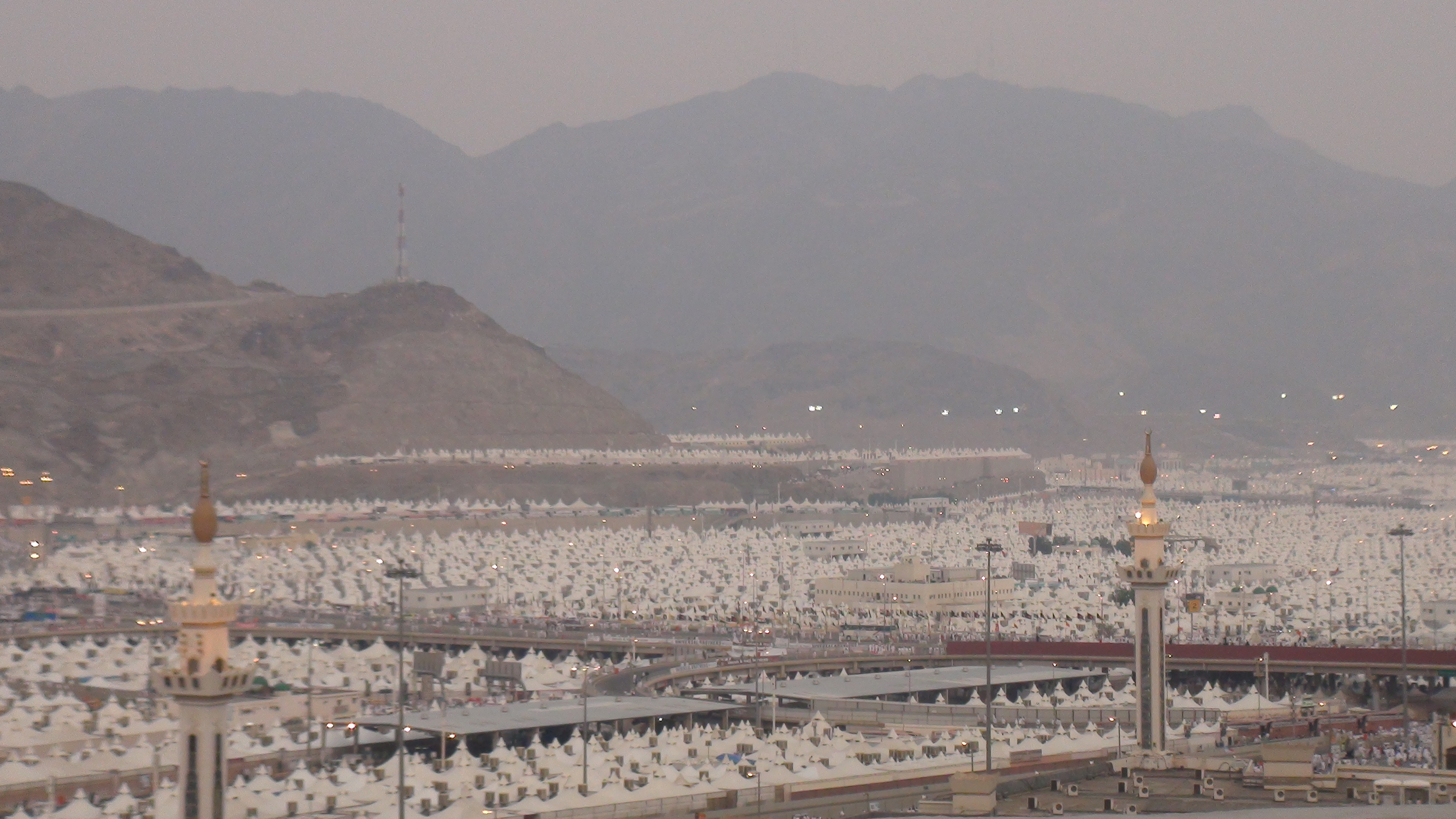 Mina area